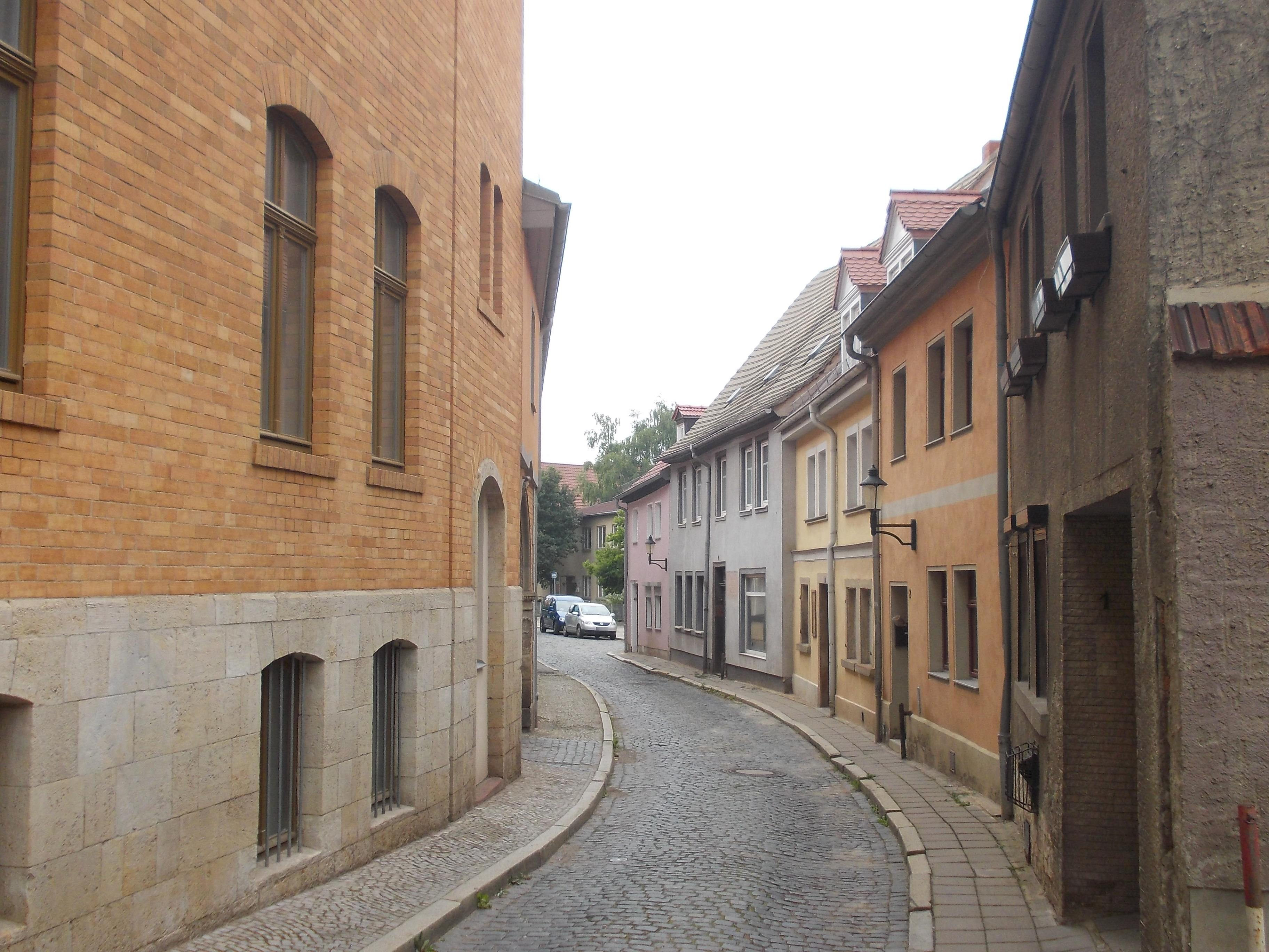 Seilergasse in Naumburg (district: Burgenlandkreis, Saxony-Anhalt)